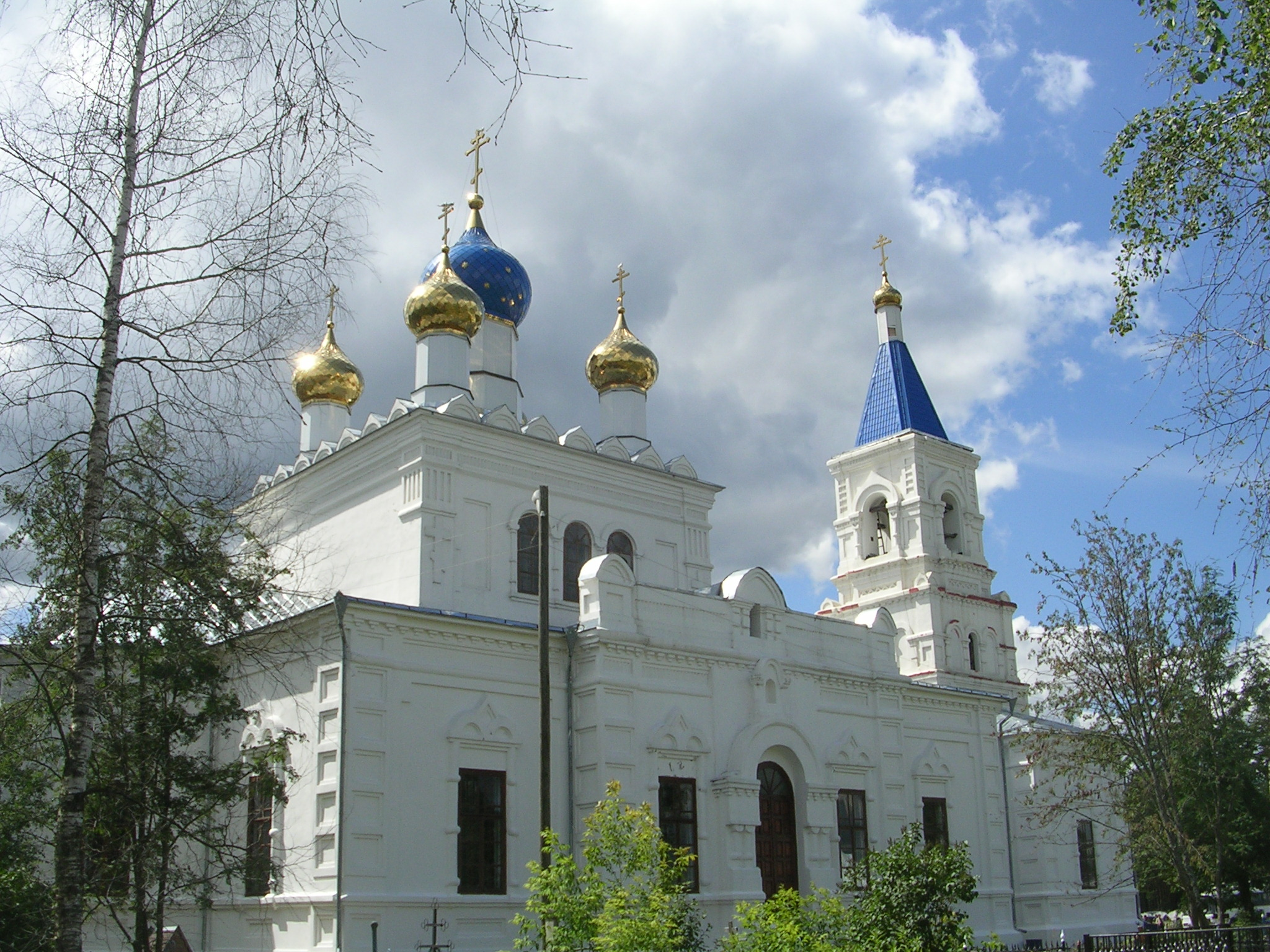 Transfiguration of Jesus temple in Andreevsky Vyselki in Shatura district of Moscow region. View of north facade.